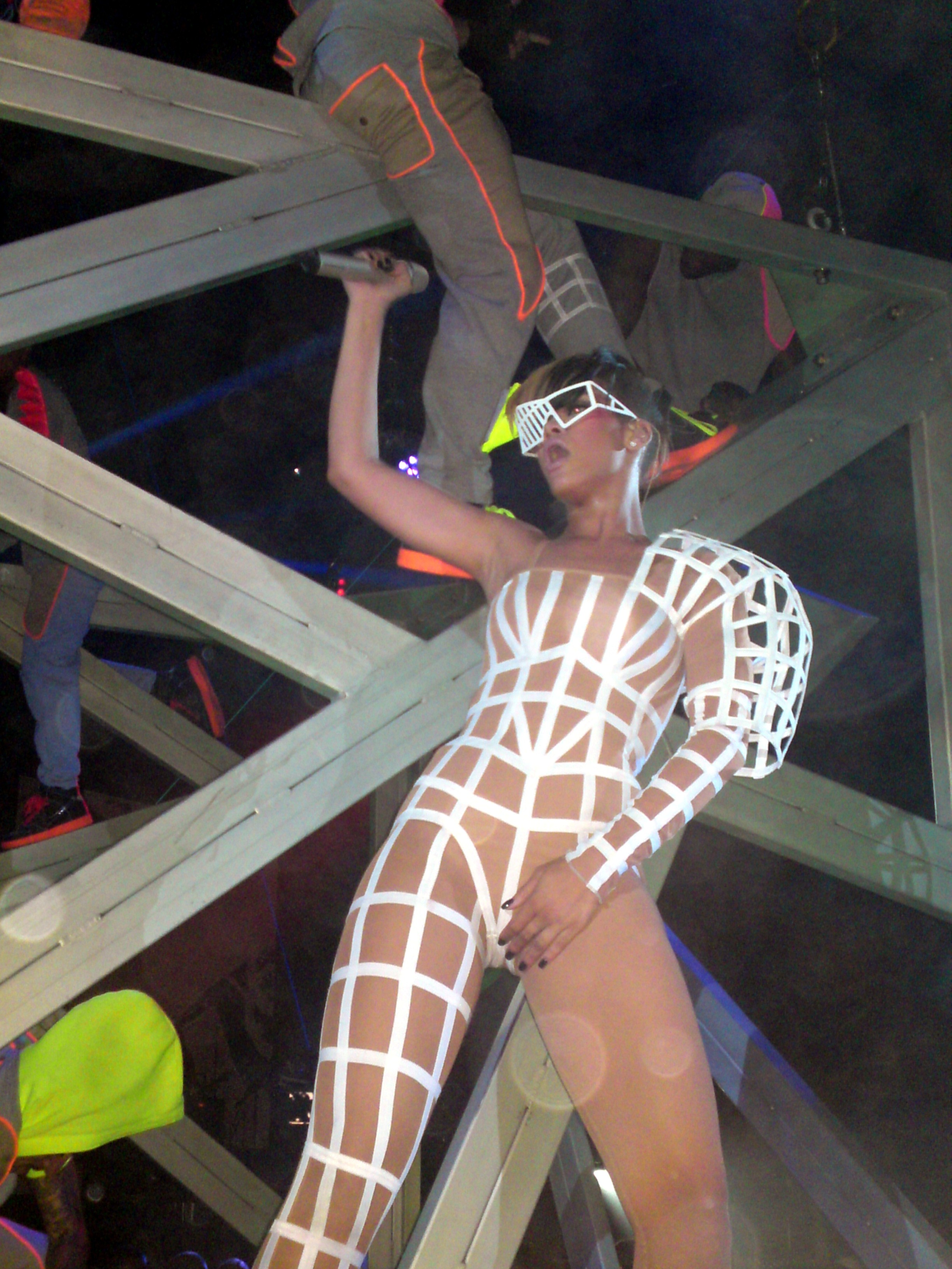 Rihanna is performing "Don't Stop The Music" at her show in Hallenstadion, Zurich.